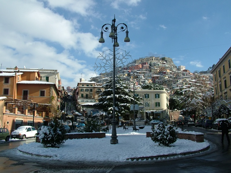 Rocca di Papa, winter view